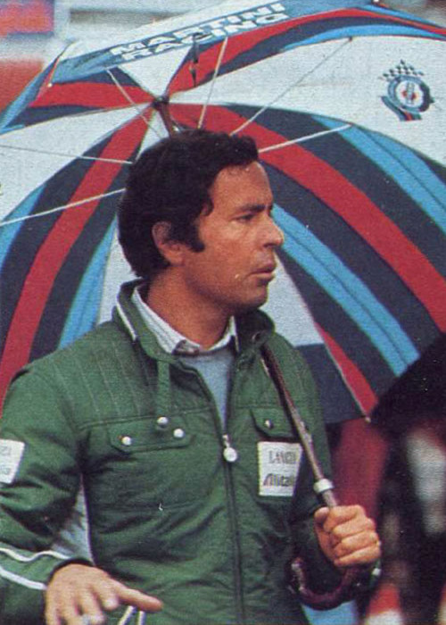 Lancia-Alitalia's team manager Cesare Fiorio at the 1975 Automotive Tour of Italy.